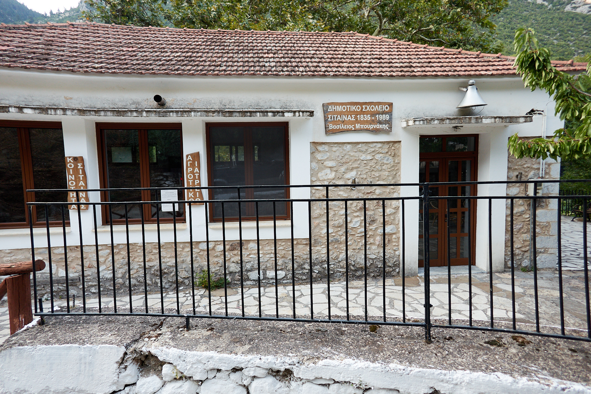 Sitena's former elementary school building, located in the Arcadia region of Peloponnese, Greece.